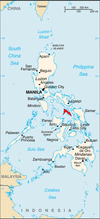 Locateion of island of Masbate